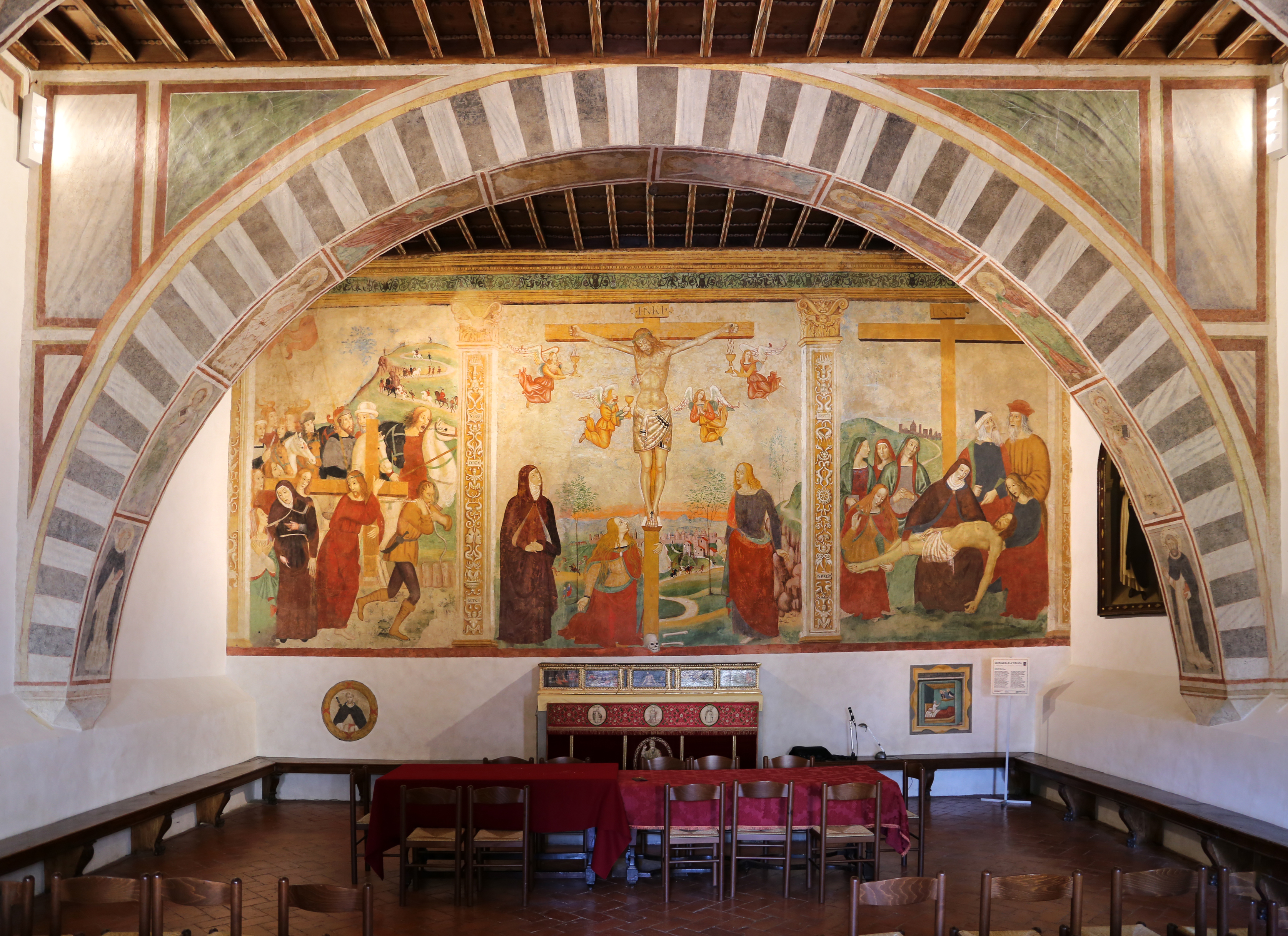 San Niccolò (Prato) - Chapter House